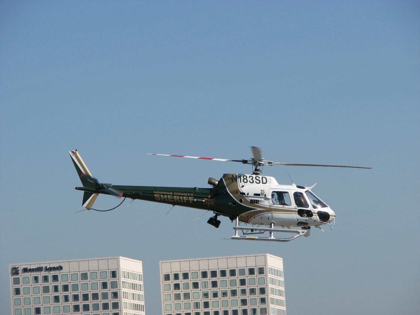 Orange County Sheriffs Dept Eurocopter AS350B Squirell